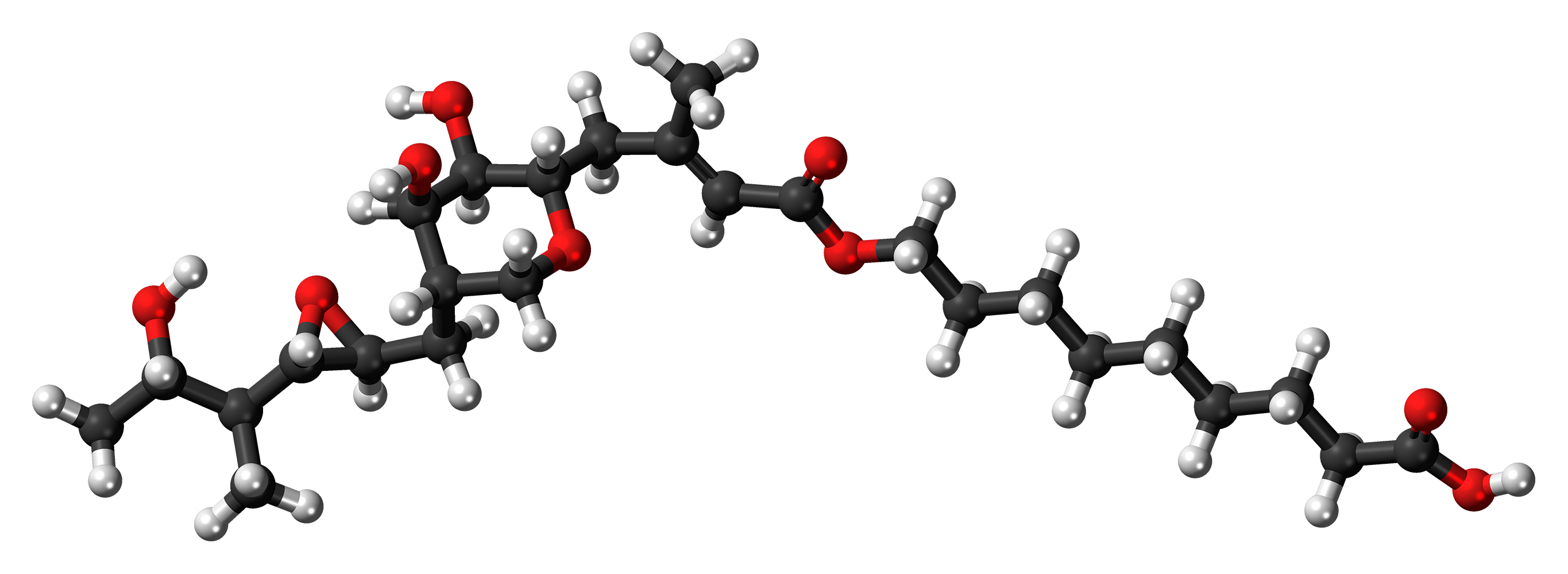 Ball-and-stick model of the Pseudomonic acid A (PA-A) molecule, the principal component of mupirocin, an antibiotic. Color code: Carbon, C: black Hydrogen, H: white Oxygen, O: red